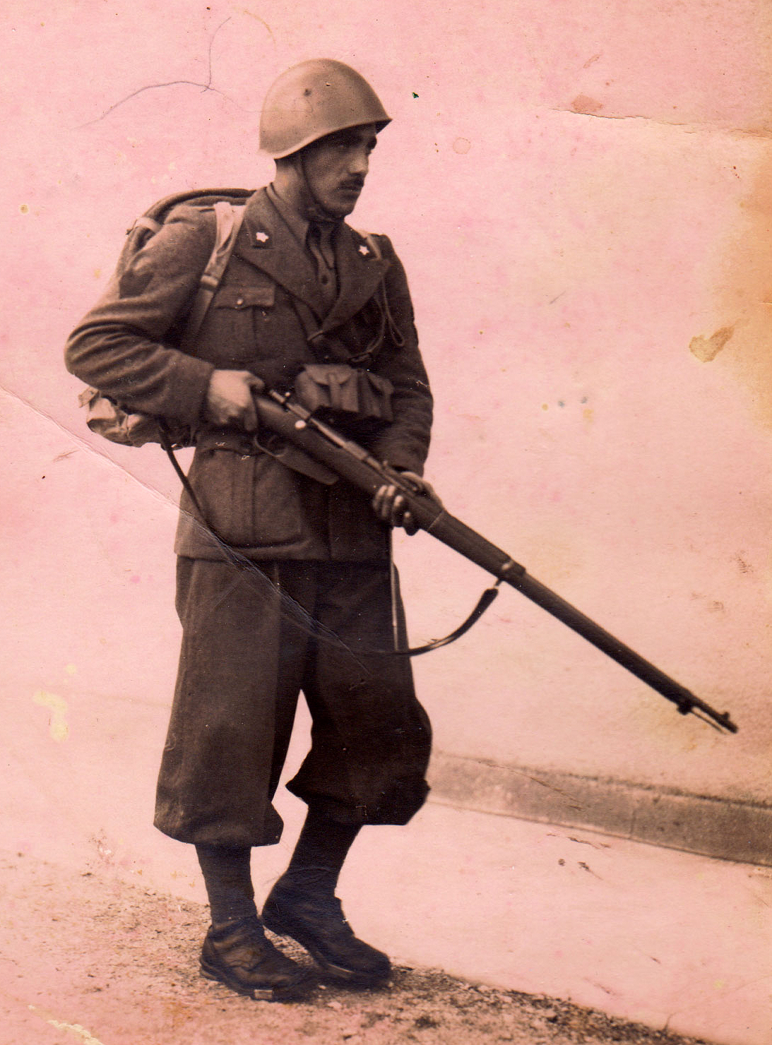 WW II Alpino Sergente Giovannucci Verino in Battle Uniform ca. 1942